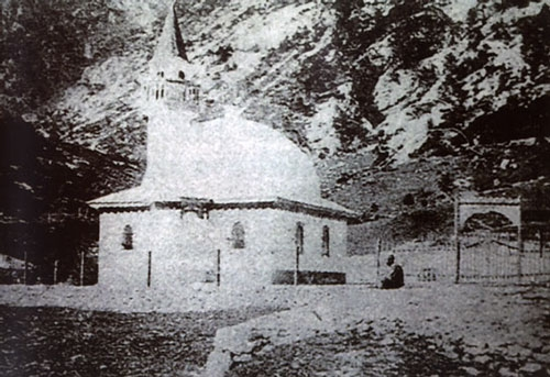 The first (and for now the last) mosque in Slovenia, built probably in autumn 1916, pulled down after World War 1.